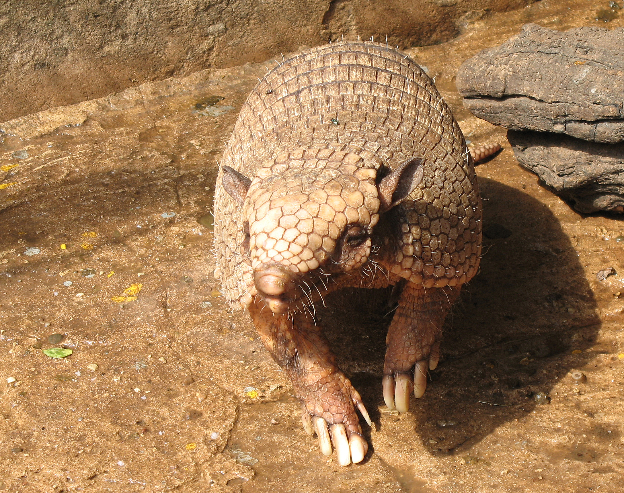 Description: Six-banded Armadillo (Euphractus sexcinctus) Author: Whaldener Endo Date: 2006